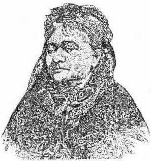 Lucyna Cwierczakiewiczowa